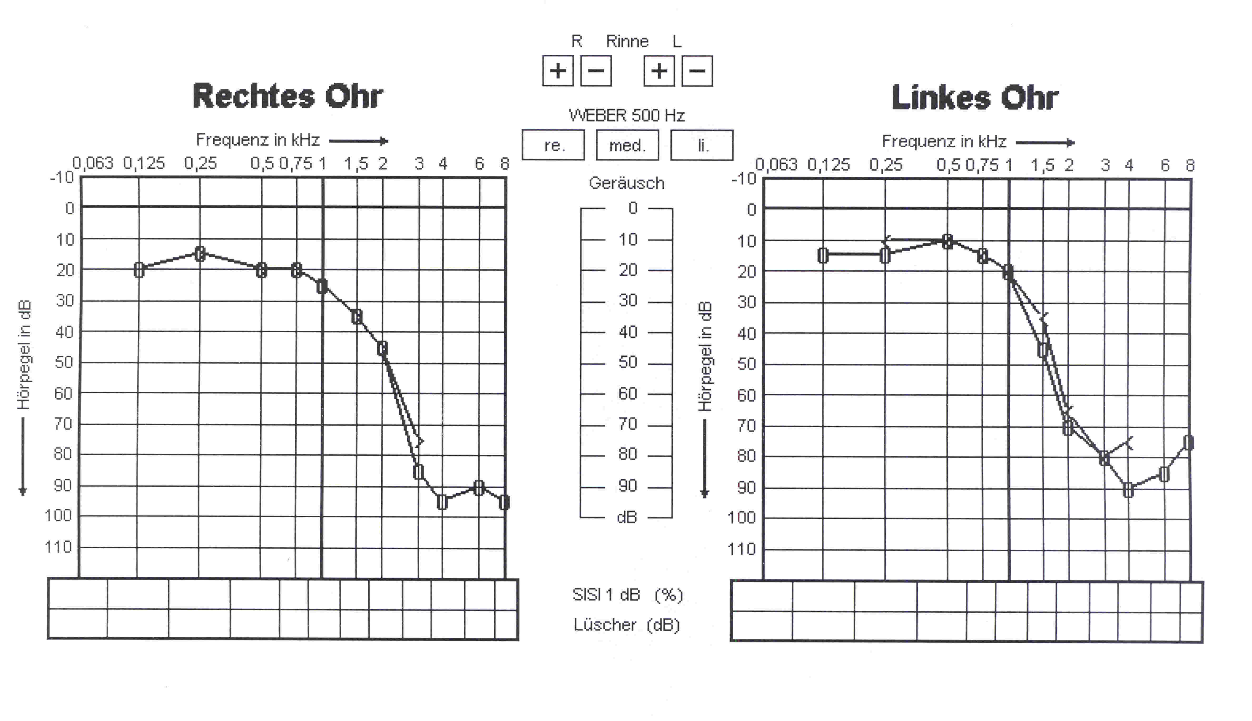 Noise deafness